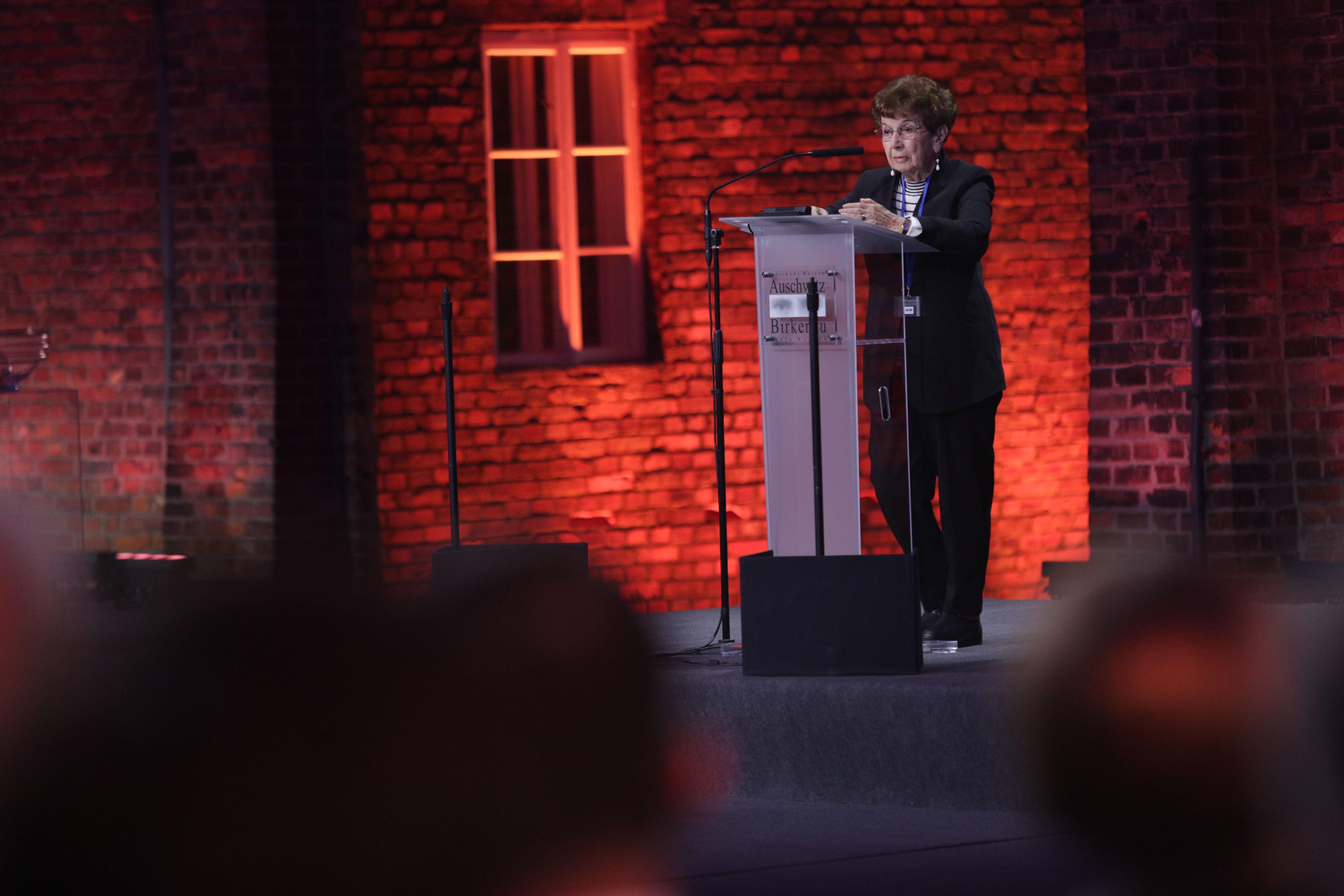 Auschwitz Survivor Batsheva Dagan at the 75th anniversary of the liberation of Auschwitz on January 27, 2020